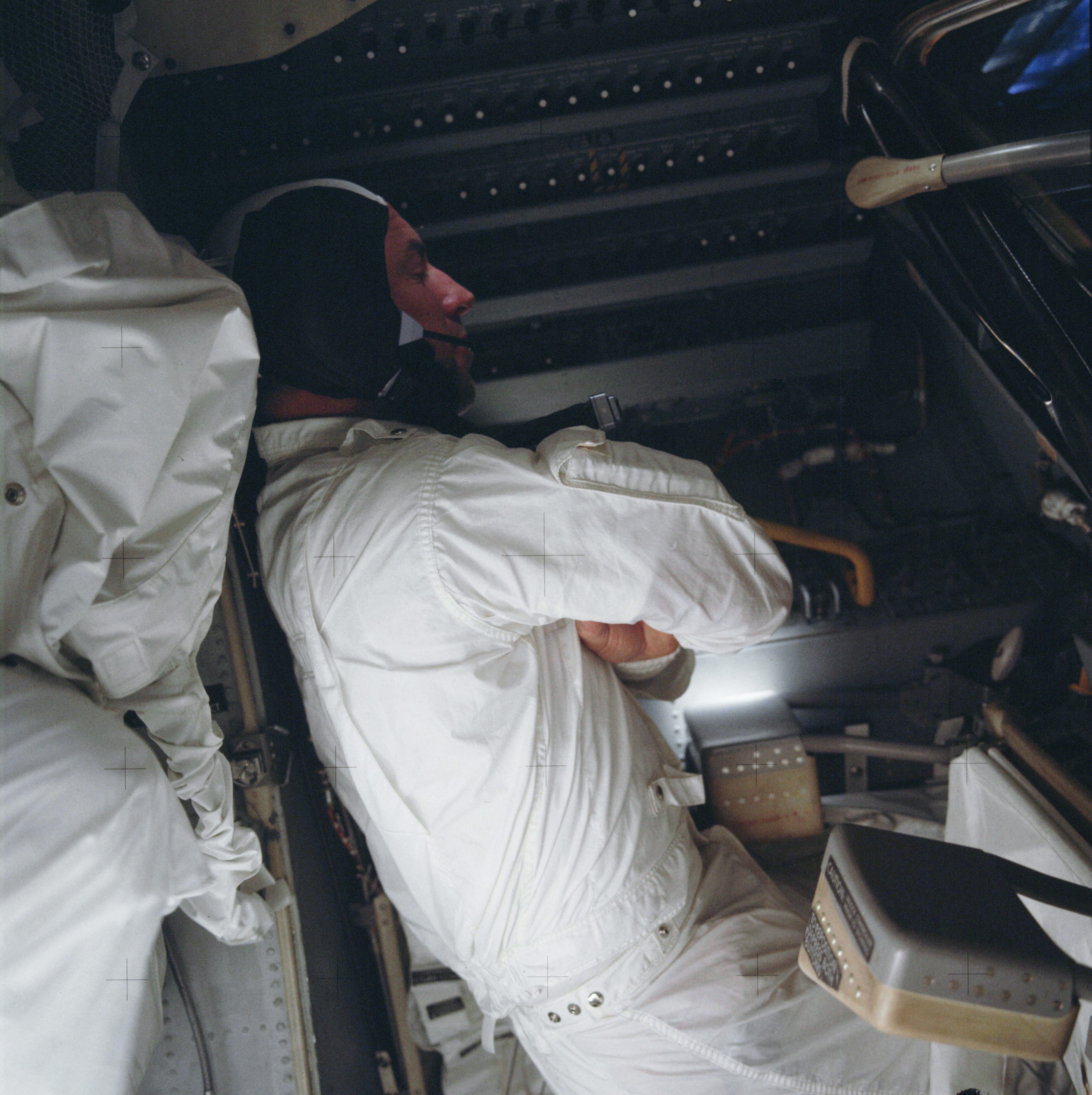 Apollo 13 Hasselblad image from film magazine 62/JJ - Onboard. Astronaut Jim Lovell shown